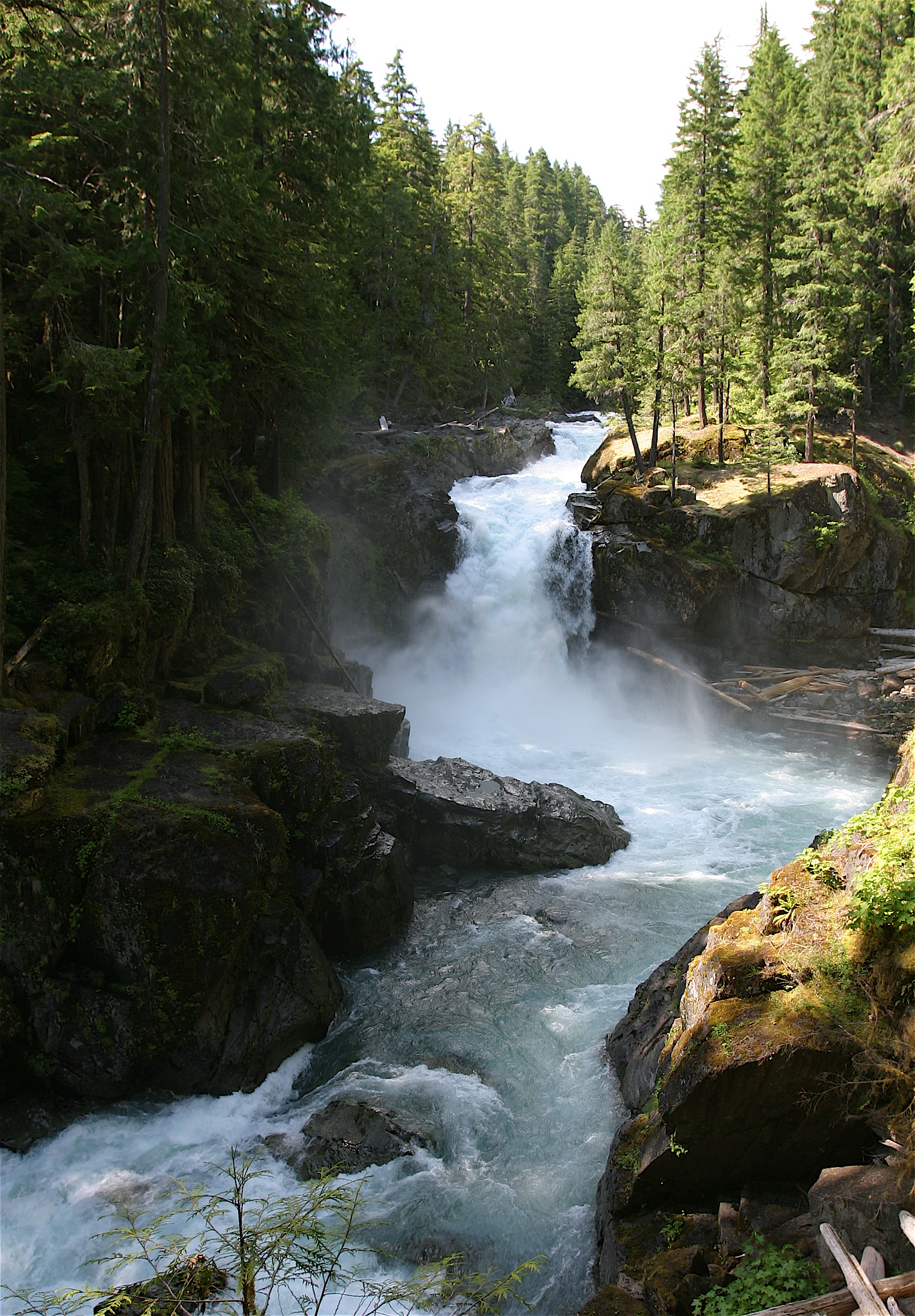 Silver Falls on the Ohanepecosh River in Mount Rainier National Park